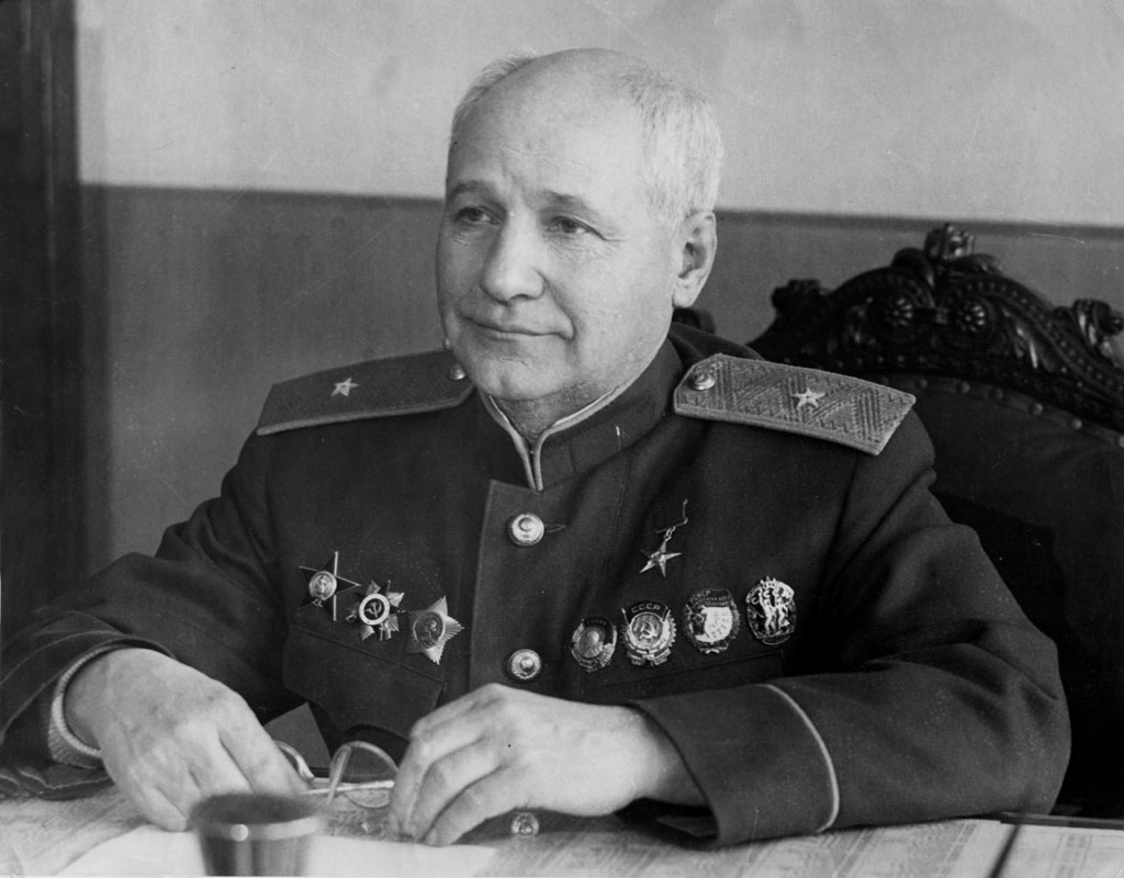 Major general Andrei Tupolev in his office.